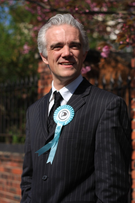 Photograph of UK Pirate Party Leader Laurence 'Loz' Kaye